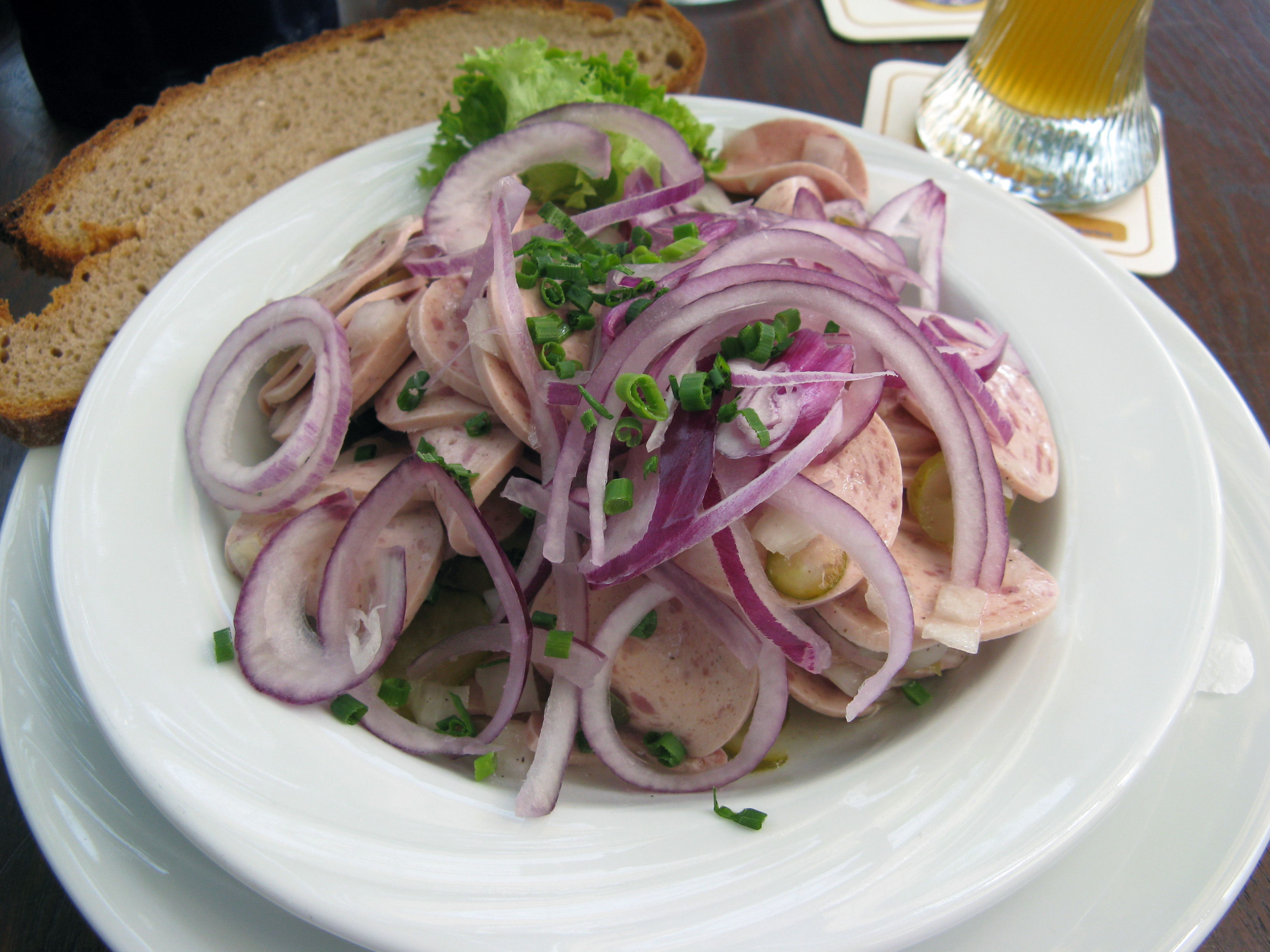 German Sausage Salad